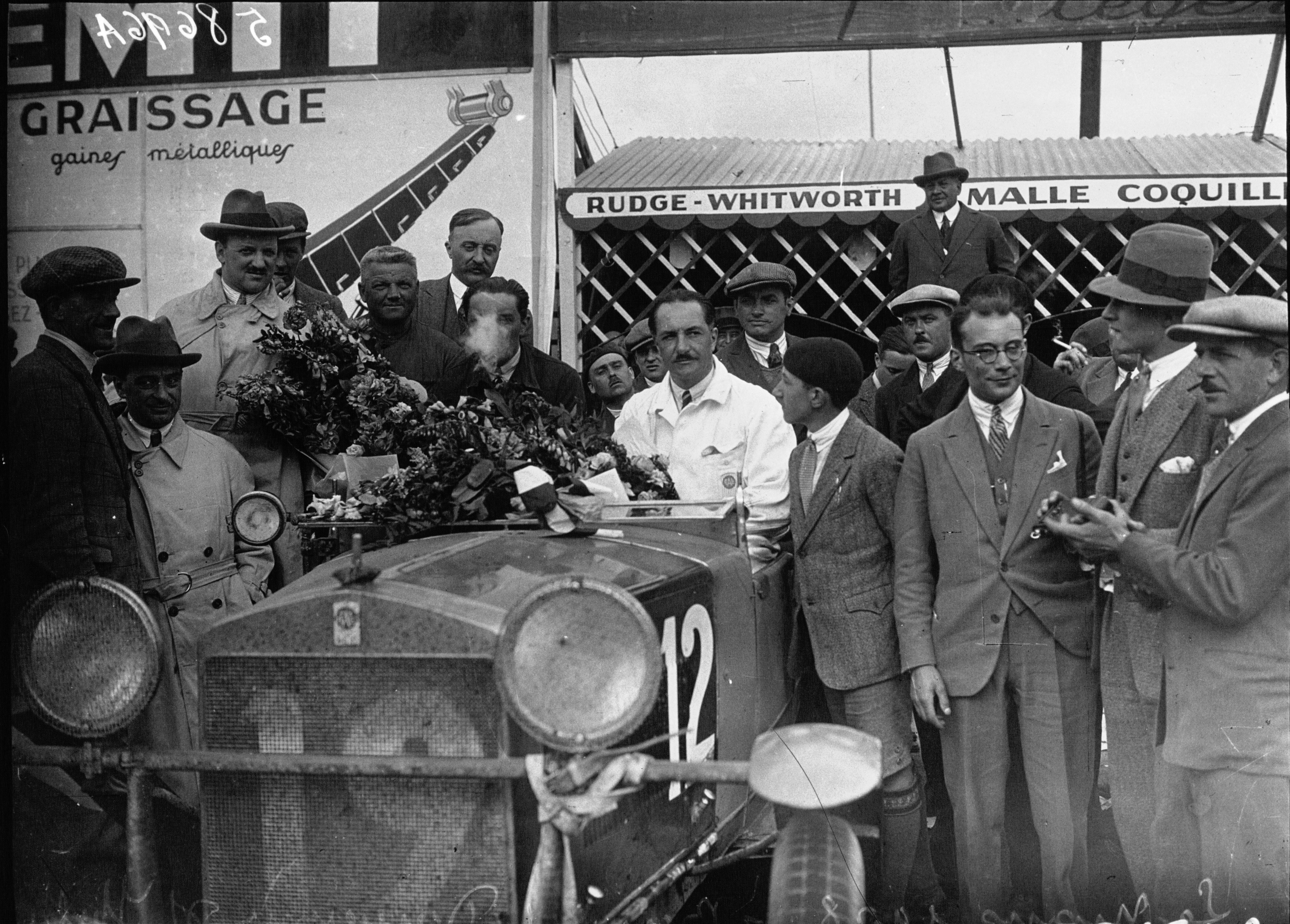 Itala #12 of Benoist and Dauvergne at the 1928 24 Hours of Le Mans.